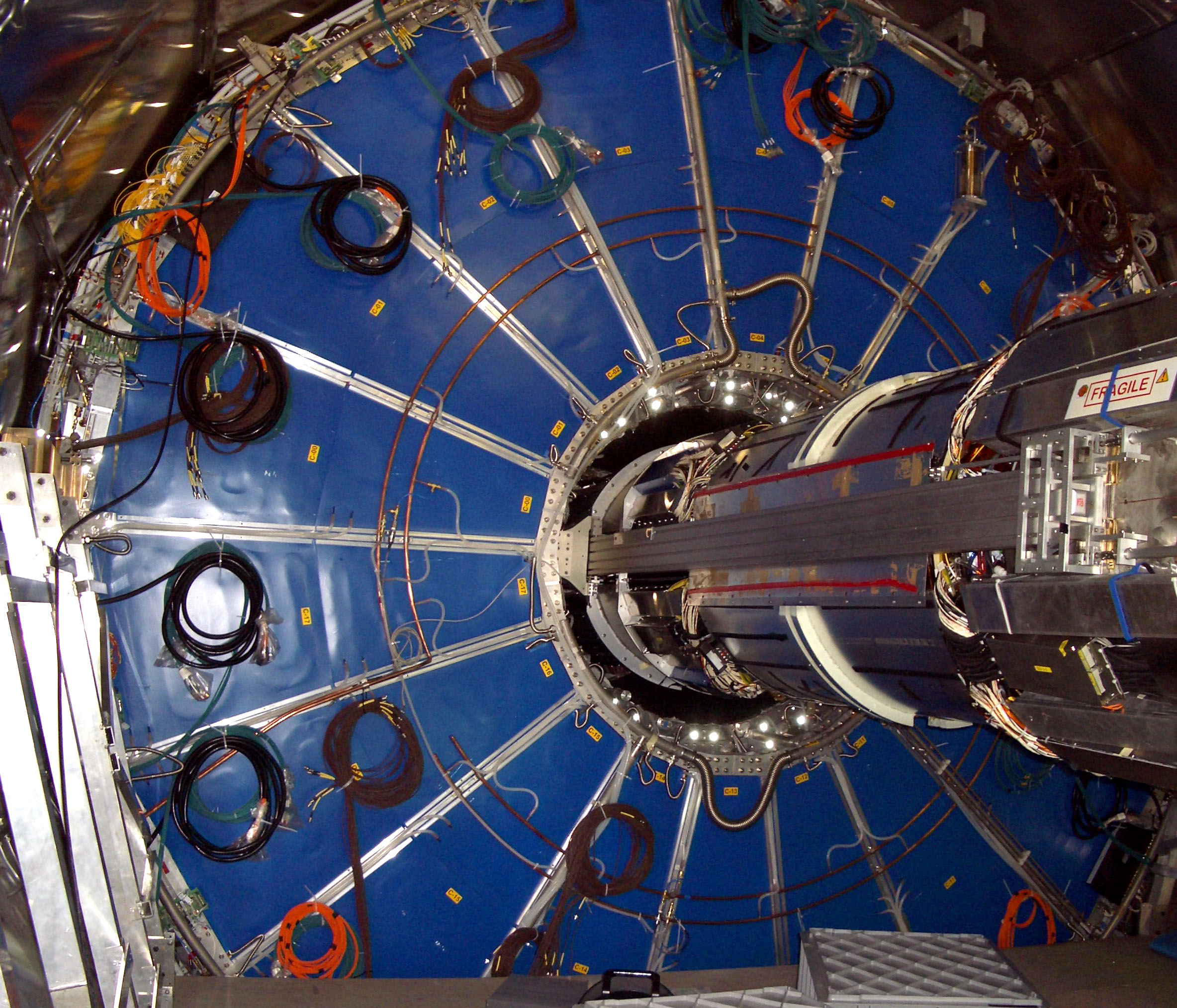 The picture shows the ALICE time projection chamber (CERN) as of September 11th, 2007. The blue sectors make up the end plates of the TPC cylinder. It is in parking position to allow access to the Inner tracking system. The picture is stitched together from two single images.